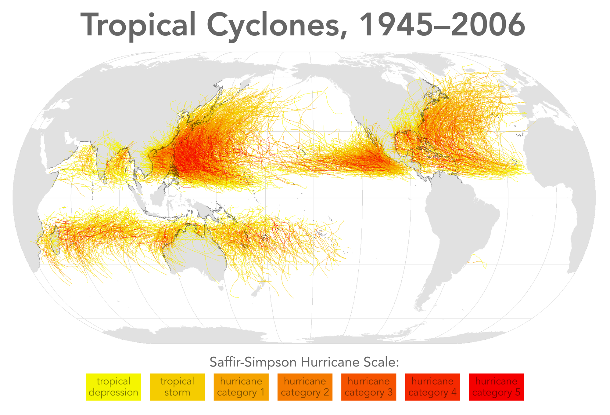 Tropical Cyclones, 1945–2006. Data from the Joint Typhoon Warning Center and the U.S. National Oceanographic and Atmospheric Administration.